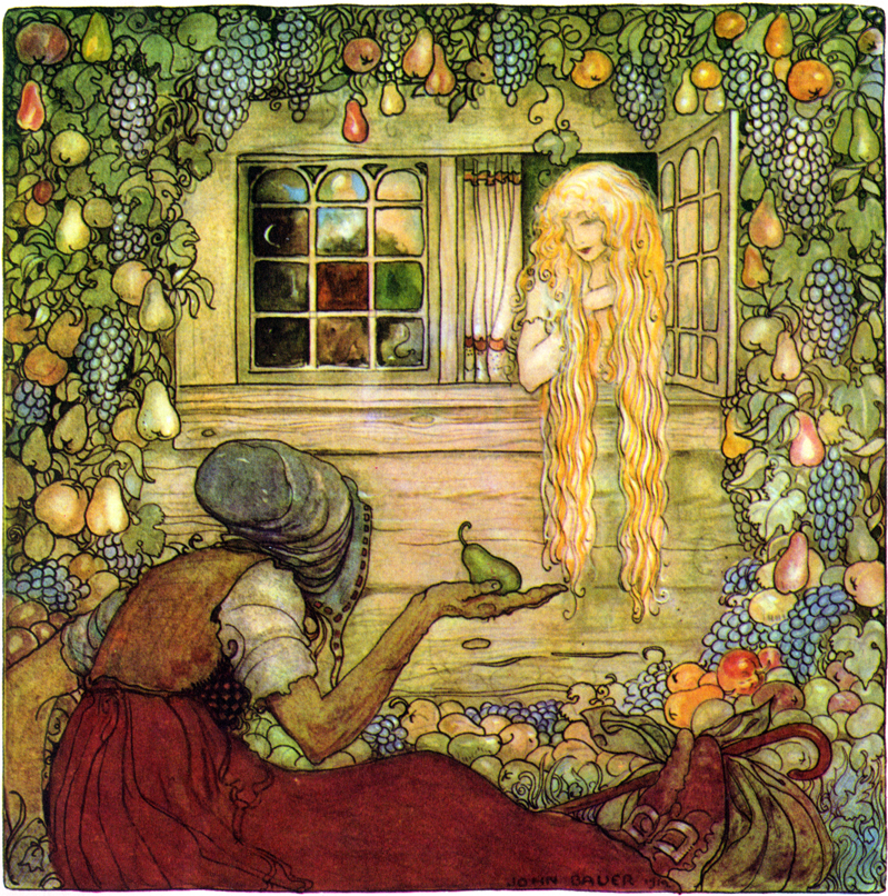 Illustration for " Trollkarlens Kappa " by Anna Wahlenberg in "Bland tomtar och troll" (Among gnomes and trolls), 1912.